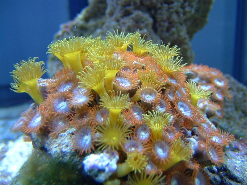 Zoanthid Colony. Photographed by (Rtcpenguin) in 2005.